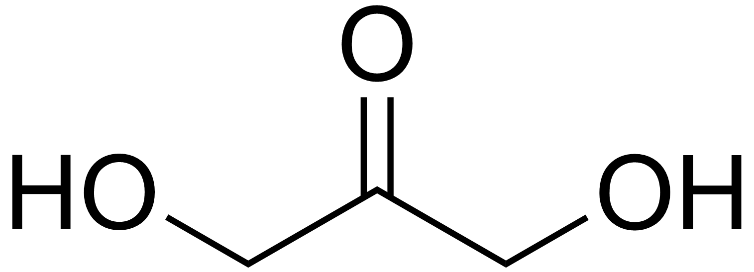 chemical structure of dihydroxyacetone